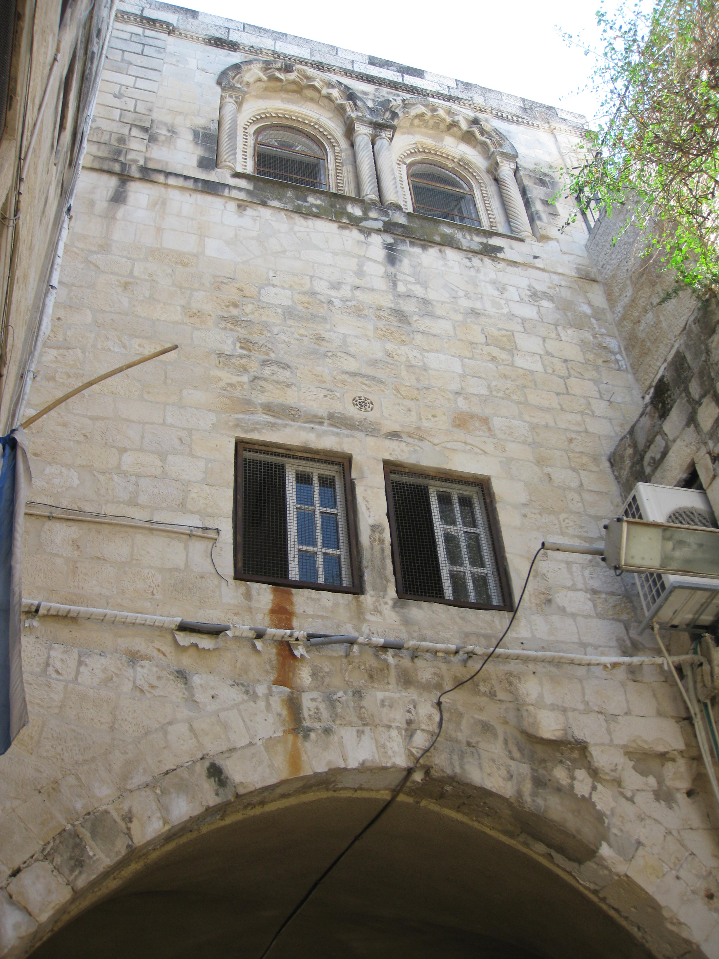 Old Jerusalem, Jewish quarter street, at the corner with Plugat Hakotel street. Lubinsky Station overlooking the Jews Street and the north gate of the quarter.